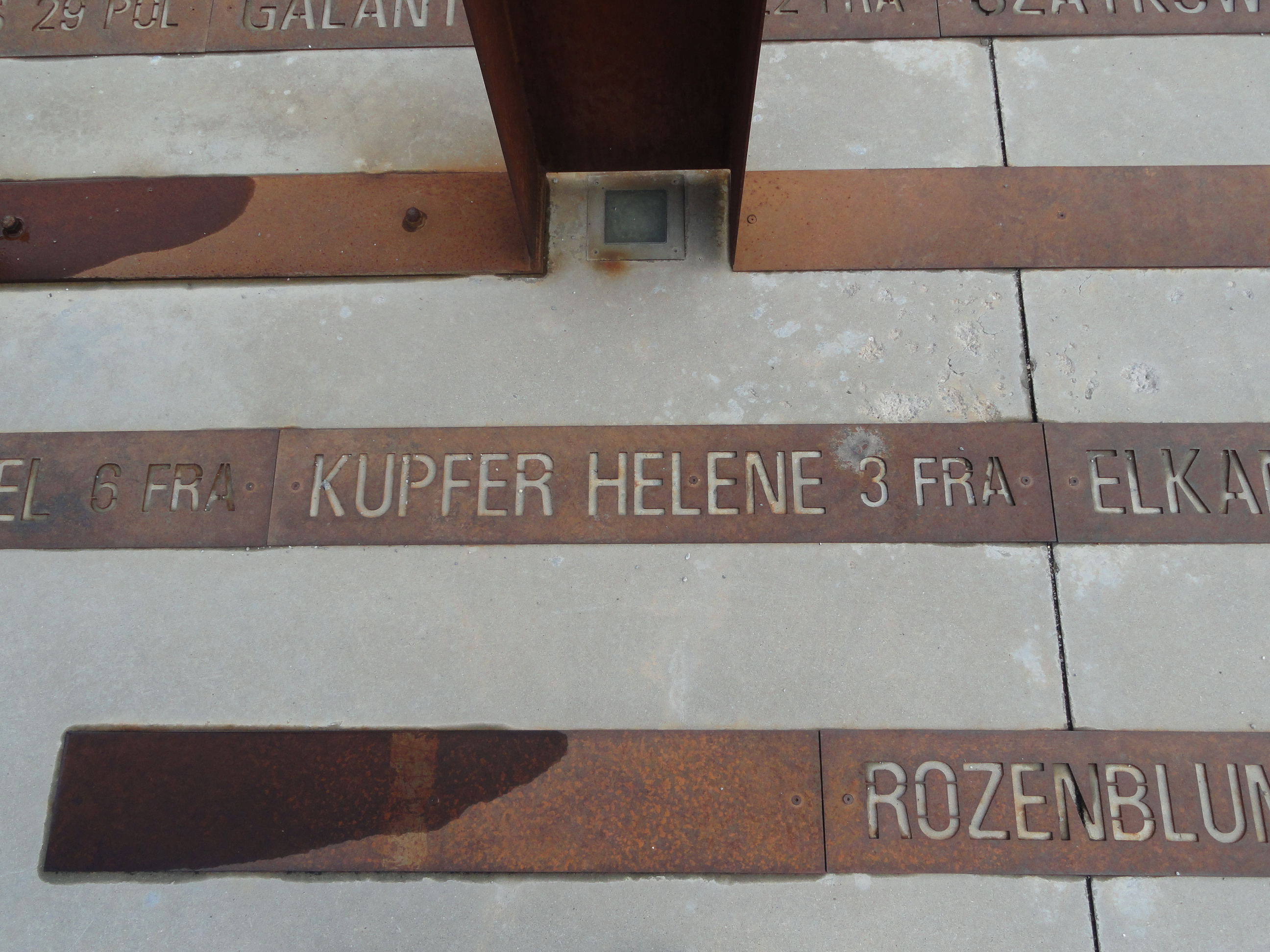 Memorial for the deportation and the Holocaust of the Jews, in Borgo San Dalmazzo (Italy). The names of the Jews killed mostly in Auschwitz are engraven on metallic strips.